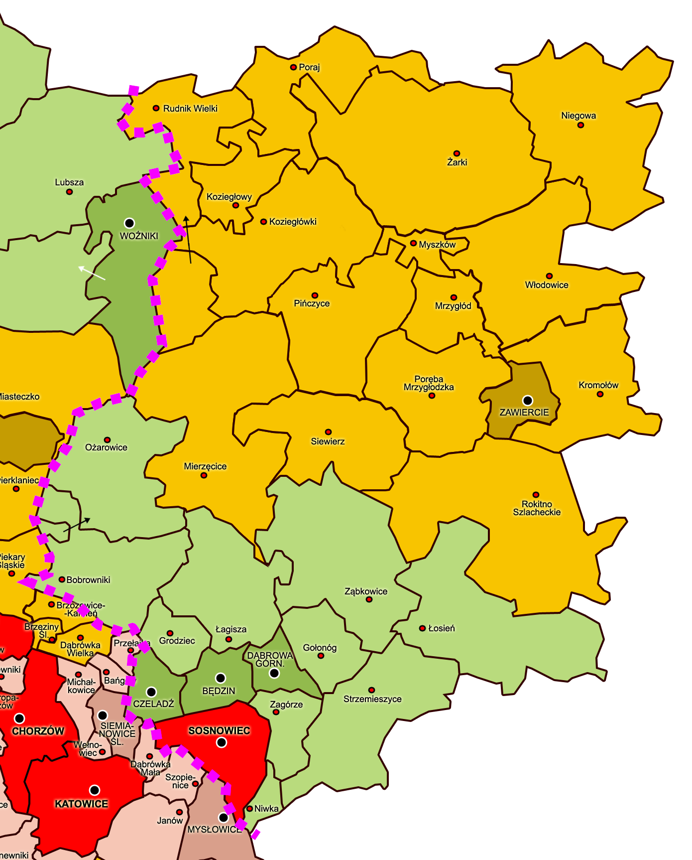 Powiats Sosnowiec, Będzin and Zawiercie in Silesian Voivodeship Administrative Map of 1946